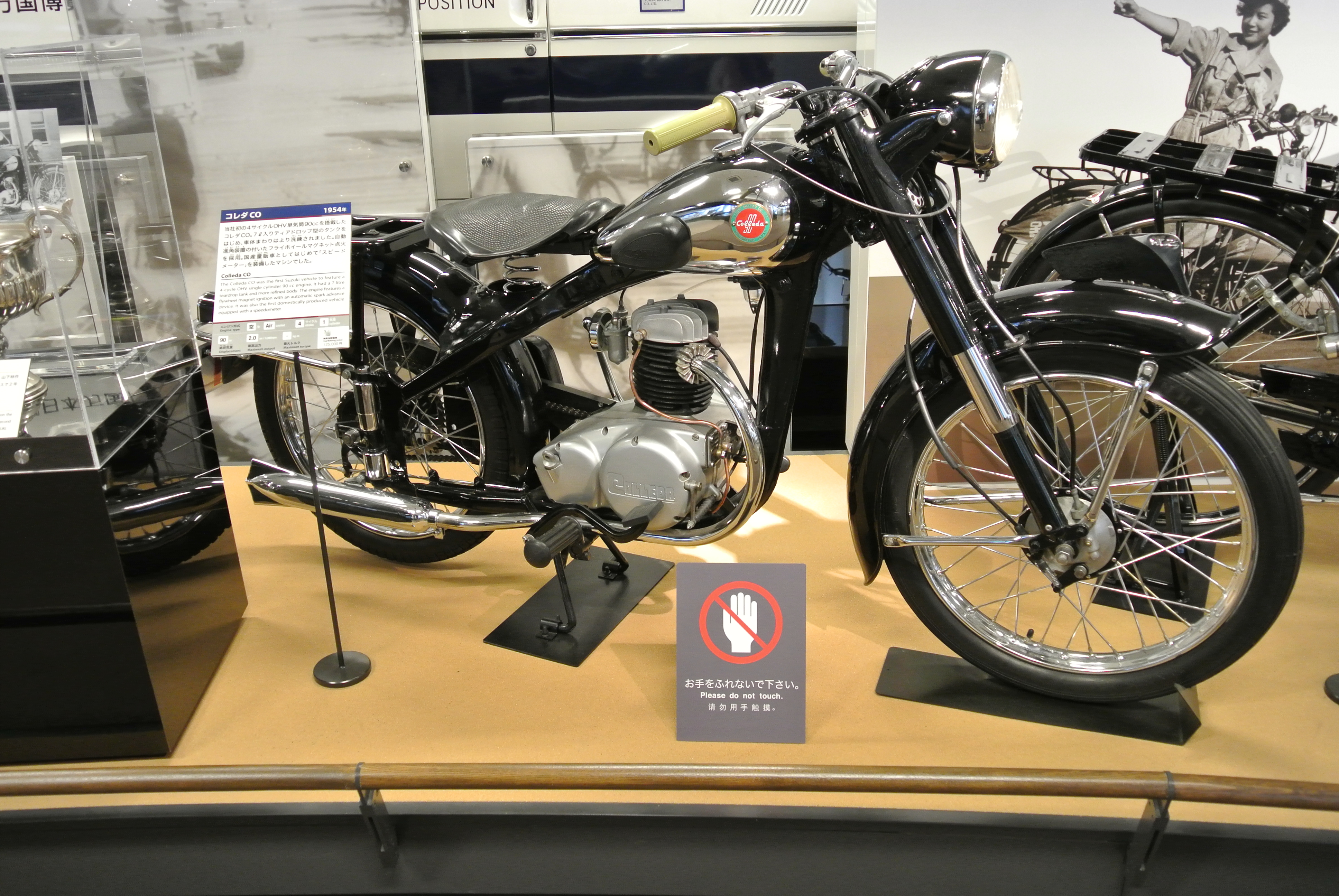 1954 Colleda CO in the Suzuki History Museum.